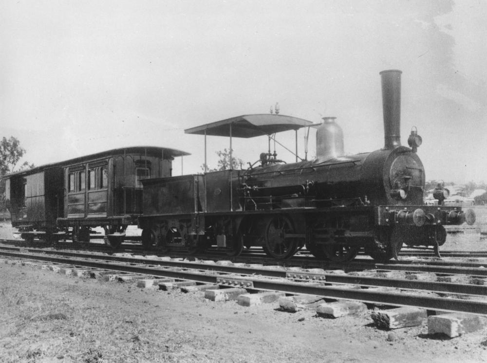 A.10 locomotive on display for the Railway Pageant at Ipswich, 1936 This A.10 locomotive was built by Neilson & Co., Glasgow in 1866, then shipped to Rockhampton, arriving on 21 August. It was numbered 3 of the Great Northern (later Central) Railway. In 1882 it was shipped to Brisbane, becoming 2nd no. 3 of the Southern and Western Railway. In 1901 it was sent north to shunt Bowen Wharf. It was returned to Brisbane in 1913, where it was exhibited in Albert Square for the Queensland Government Railways 50th Anniversary of turning the first sod. It was then stored at Ipswich until 1936, when it ran under its own steam at the Railway Pageant. It was then preserved under cover at the Roma Street Railway Yards complex until it was removed to Ipswich Workshops in 1959. It is now displayed in Queens Park, Ipswich. (Description supplied with photograph).